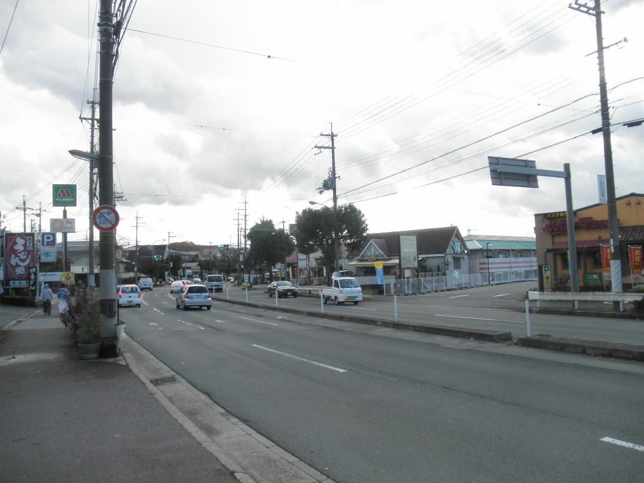 Jingyu5 Naracity Narapref Narayama main street